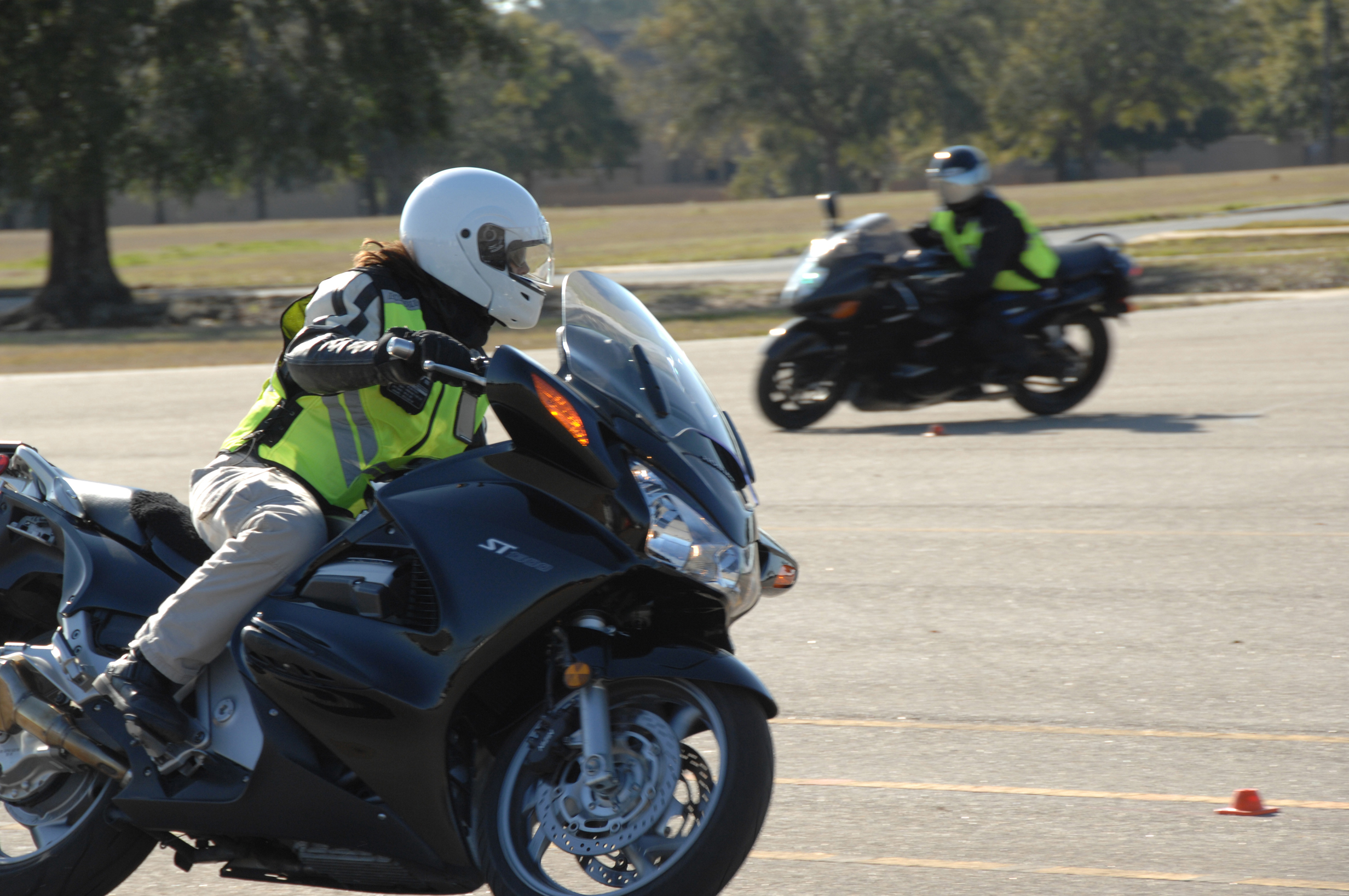 Army National Guard motorcycle riders hone their skills during the Army Guard hosted Motorcycle Safety Foundation Sport-bike Rider Certification Course Jan. 30 at Fort Rucker, Ala. (Army photo courtesy of Fort Rucker Public Affairs) (Released)